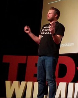 Jonathon Wright: Cognitive Learning - 'Digital Evolution, Over Revolution'